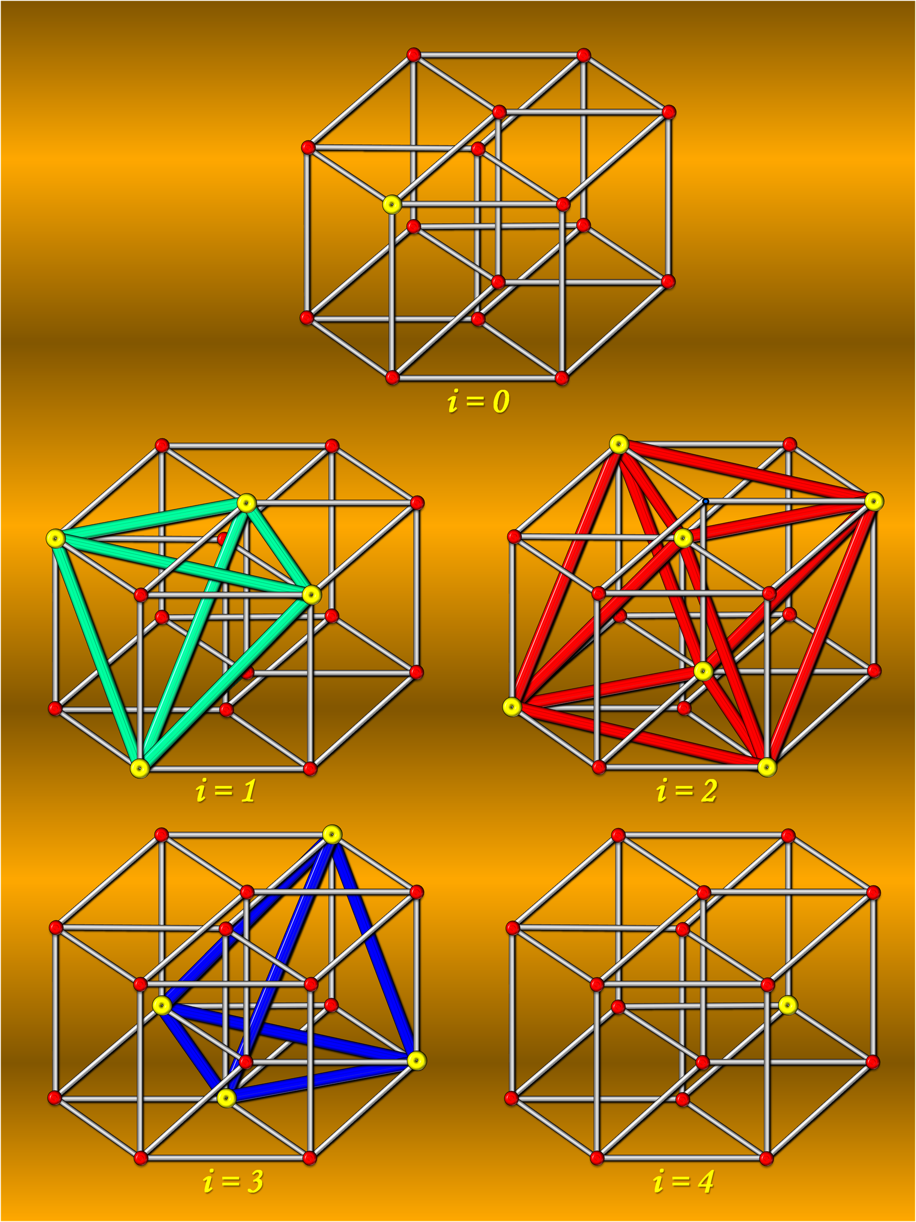 Sections through the tesseract corresponding to the row (1, 4, 6, 4, 1) in Pascal's triangle